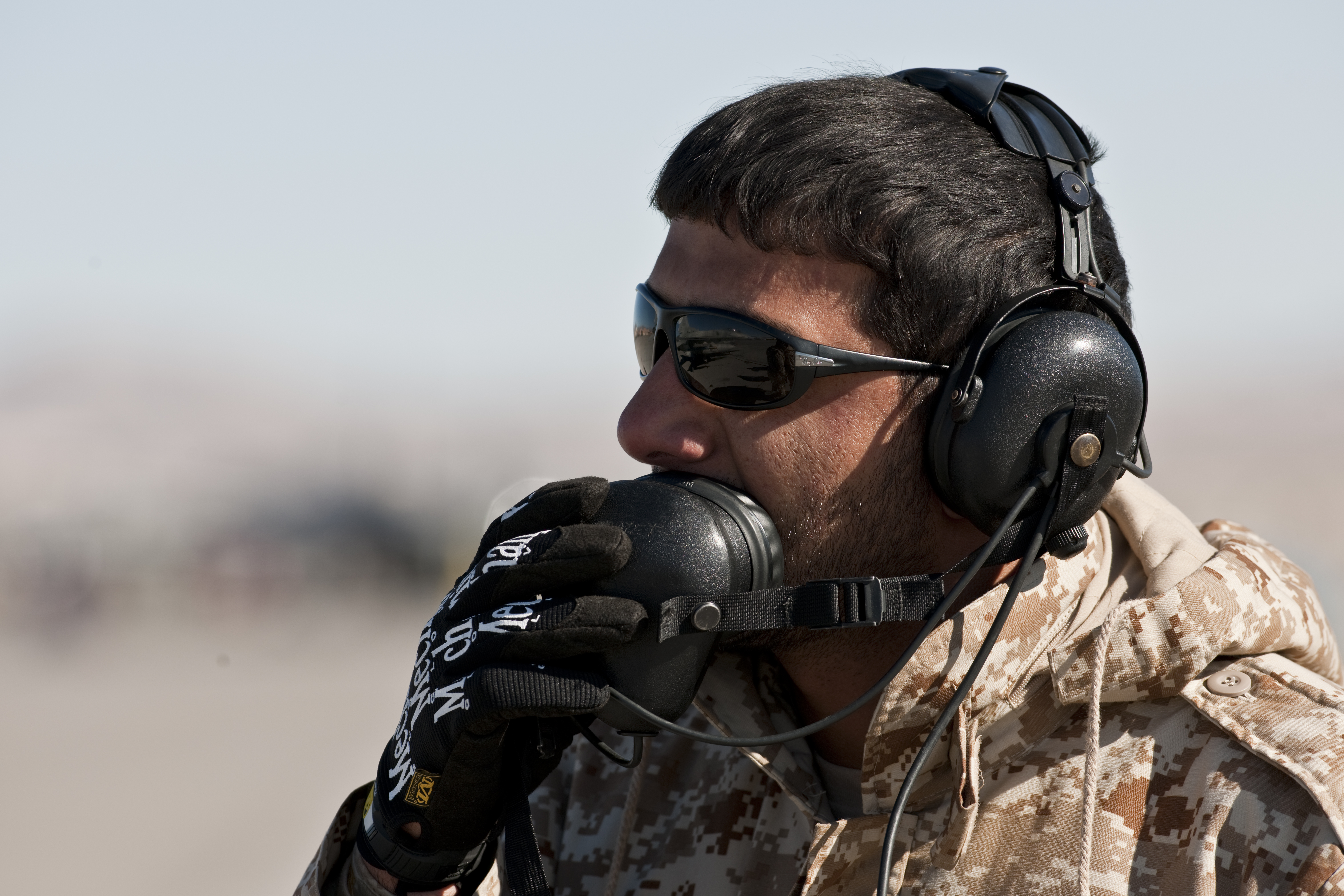 United Arab Emirates Sgt. Maj. Abdul Alkalar, a crew chief assigned to the Saheen 3 Squadron, uses a head set to communicate during an engine test at Nellis Air Force Base, Nev., Feb. 2, 2011, during Red Flag 11-2.